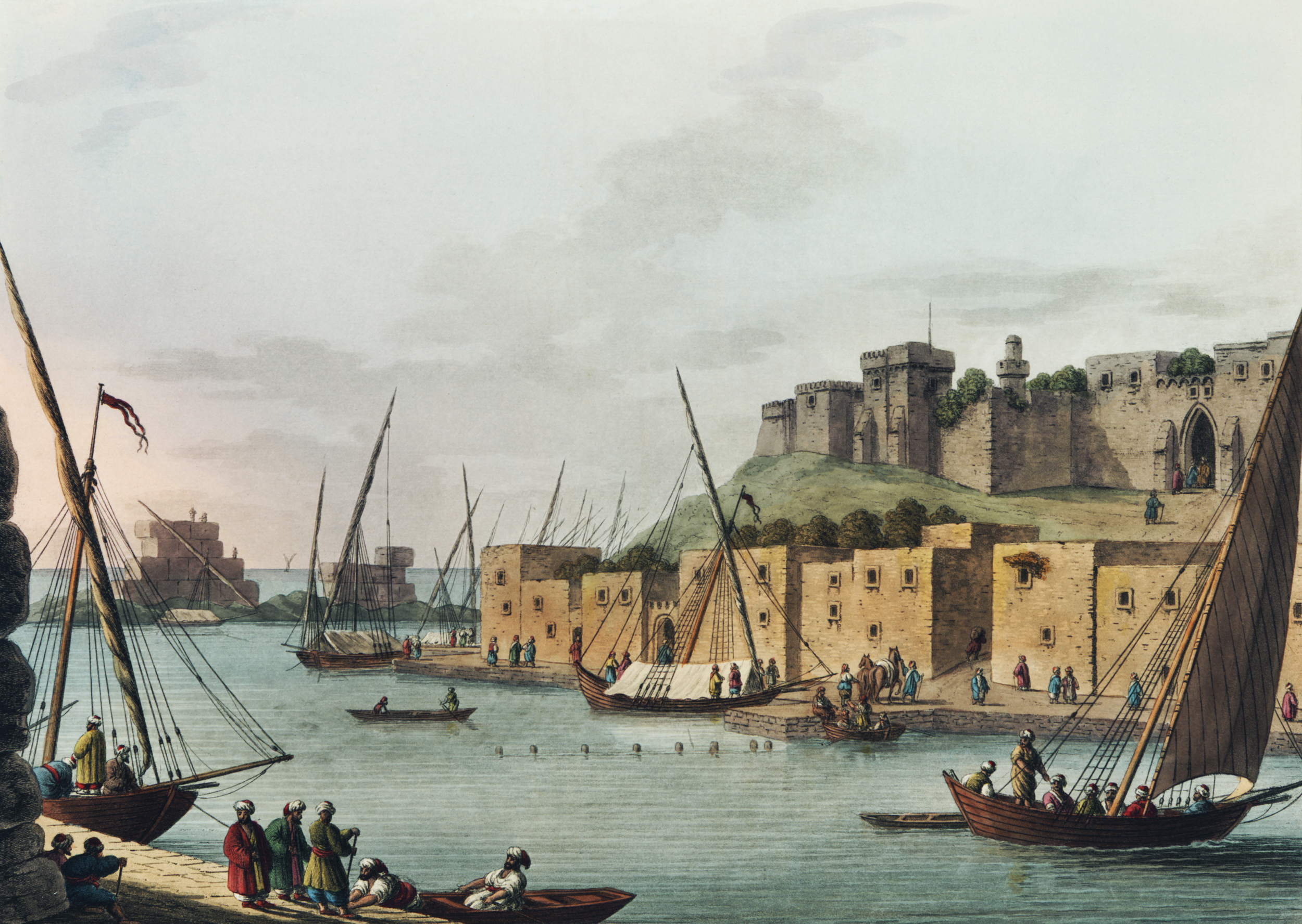 Castle in the Island of Tortosa from Views in the Ottoman Dominions, in Europe, in Asia, and some of the Mediterranean islands (1810) illustrated by Luigi Mayer (1755-1803).